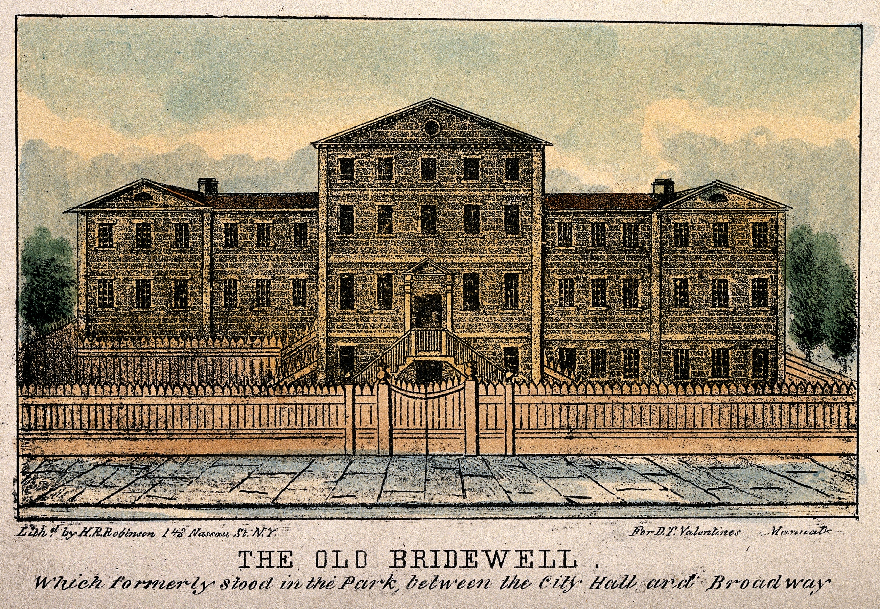 Old Bridewell, New York, America. Coloured lithograph by H.R. Robinson. Iconographic Collections Keywords: H.R. Robinson